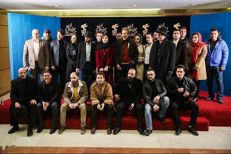 First day of 35th Fajr International Film Festival